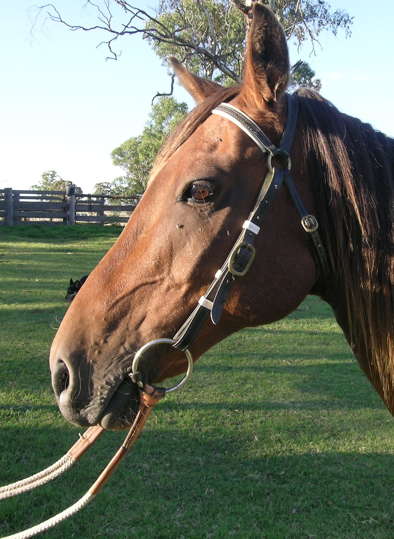 Barcoo (or ringhead) bridle as used across Australia for work and competitions. The horse is an aged bay stock horse, with a faded black mane and tail.